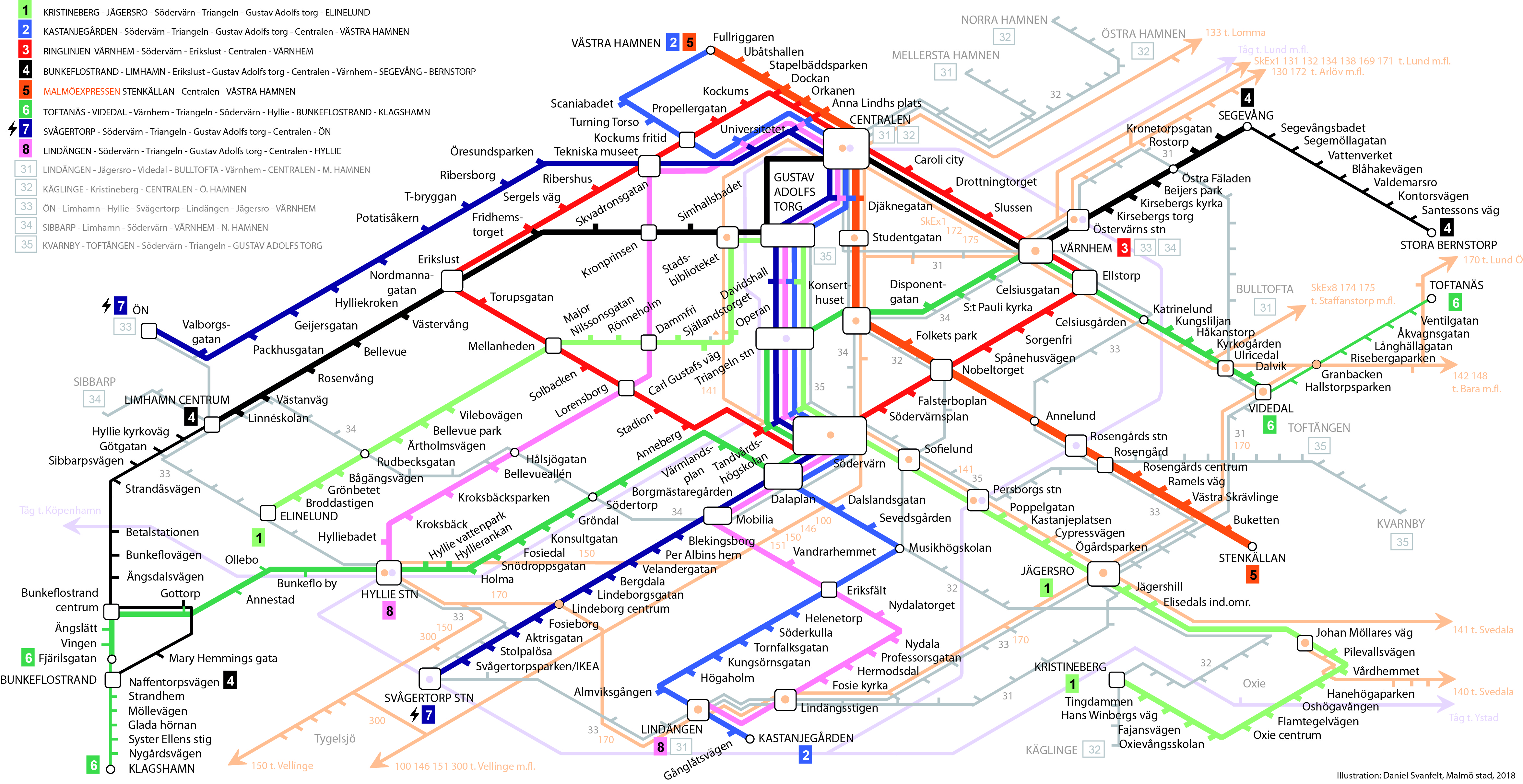 Public transport network in Malmö, by December 2018